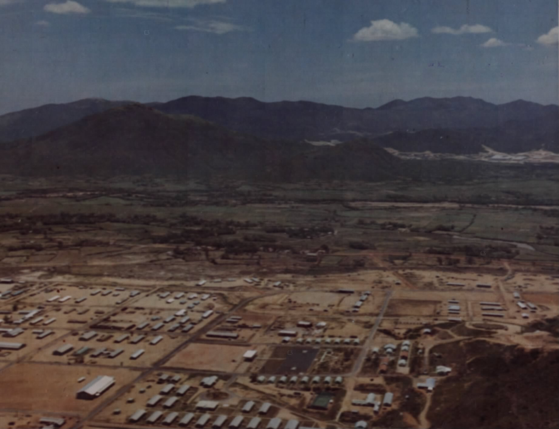 Aerial view of the Tiger Division base camp near Qui Nhon